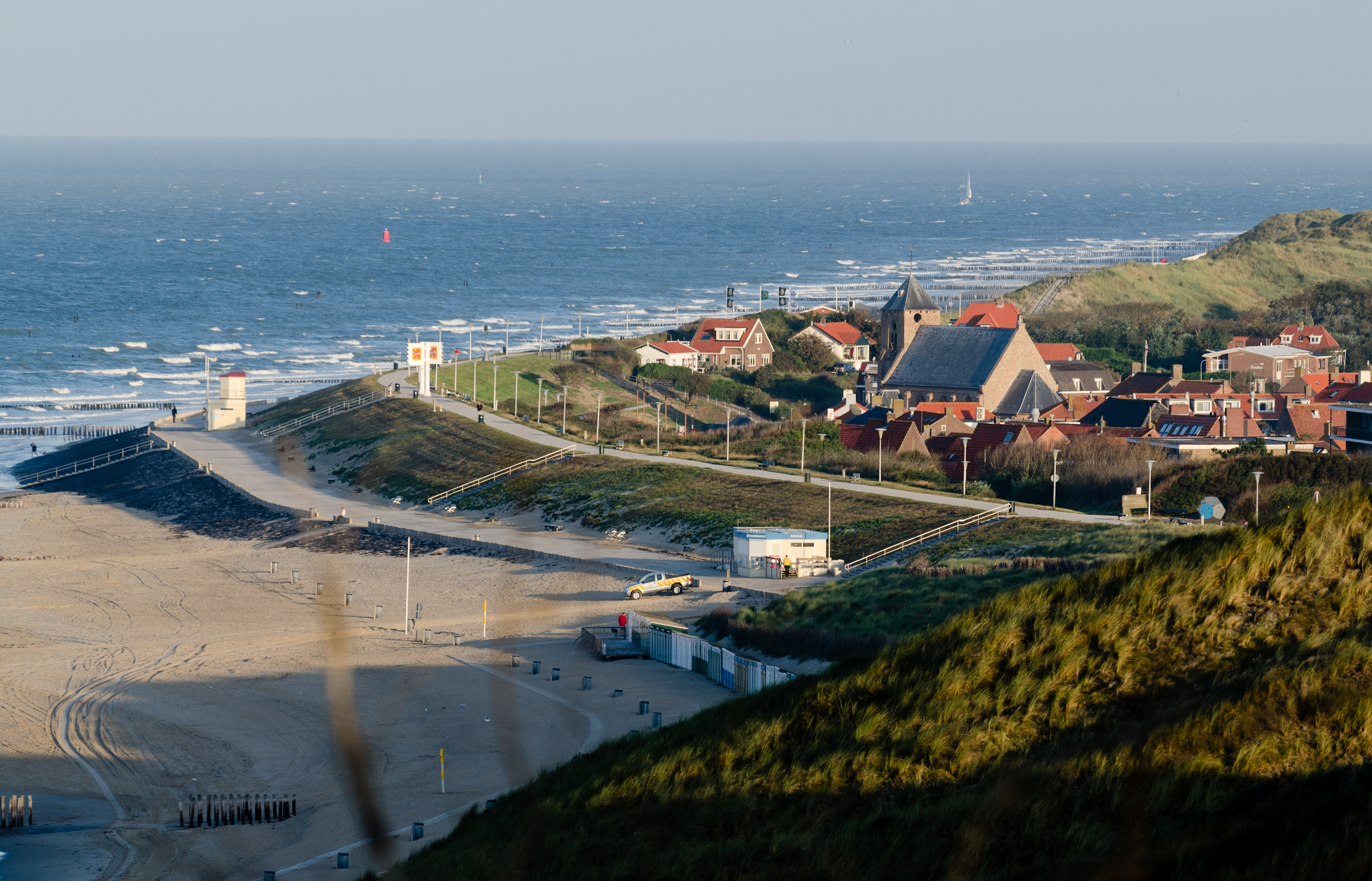 View onto Zoutelande from the duins in the morning